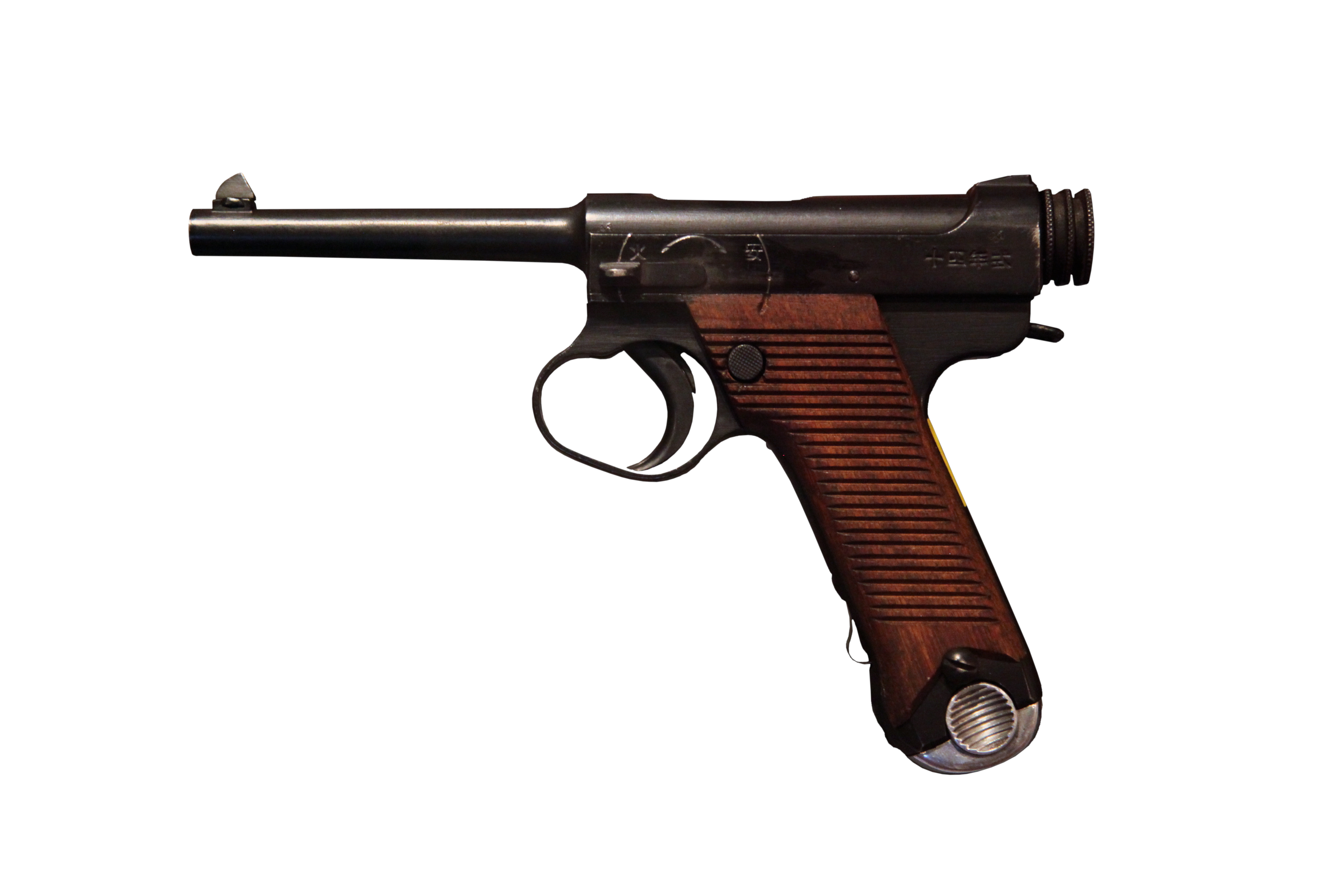 Nambu pistol. On display at the Parachute Regiment exhibition of the Imperial War Museum in Duxford.